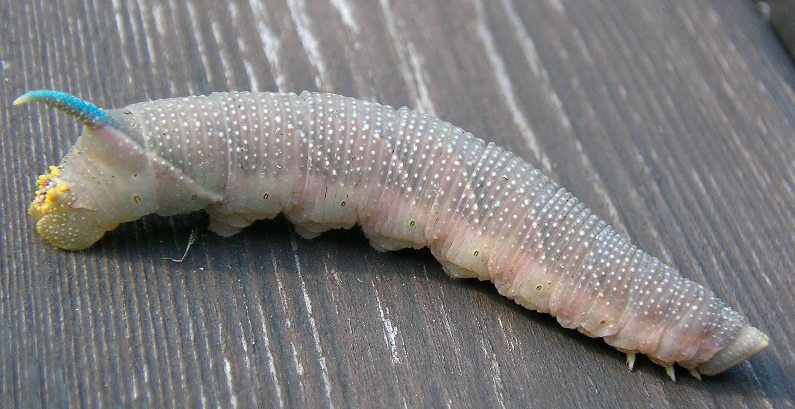 Caterpillar of the Lime Hawk-moth (Mimas tiliae) near Askersund, Sweden. The caterpillar is ready for pupation what the violet-brownish colour points to.